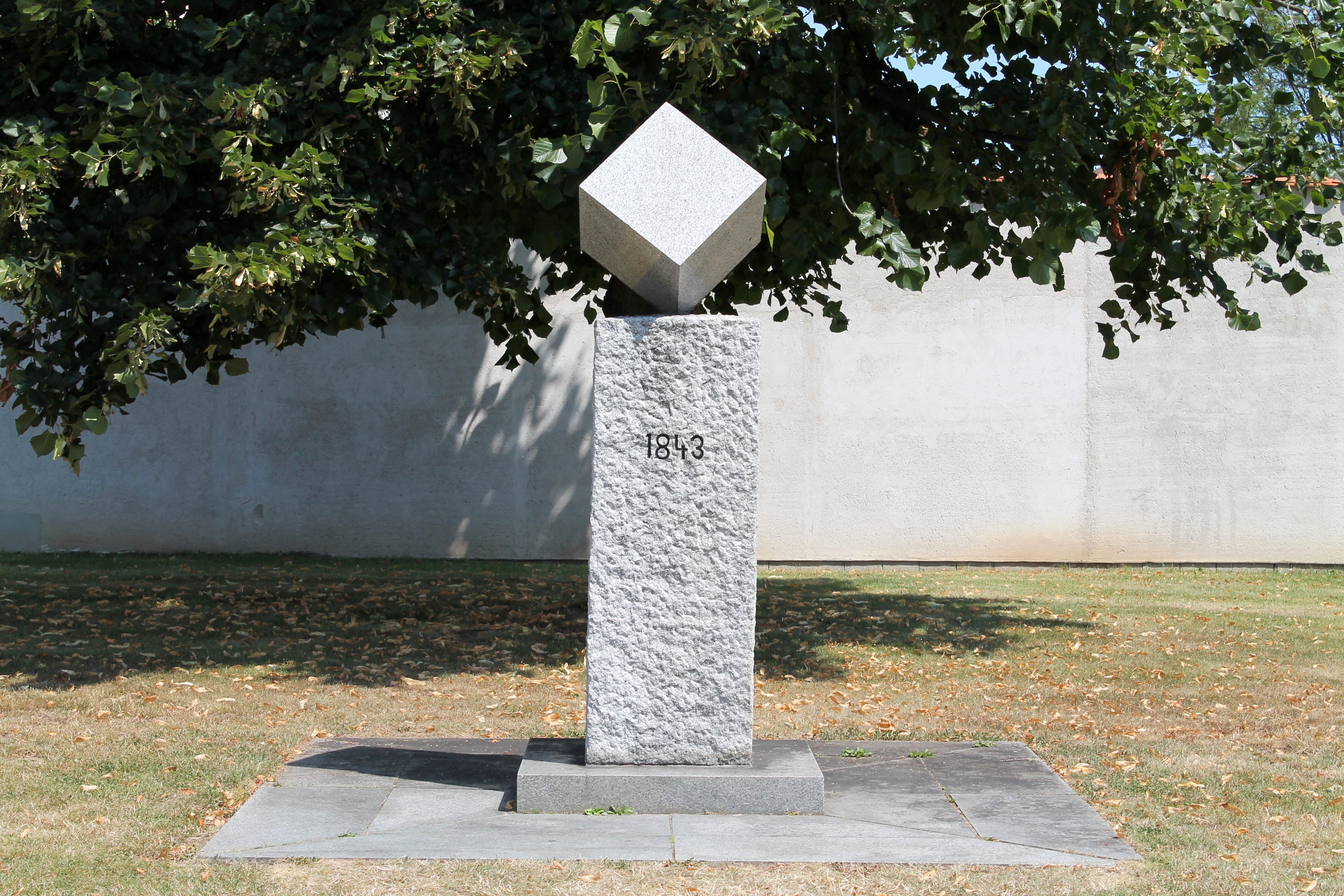 Memorial of lump sugar, Dačice, Jindřichův Hradec District, Czech Republic - OpenStreetMap (Info)